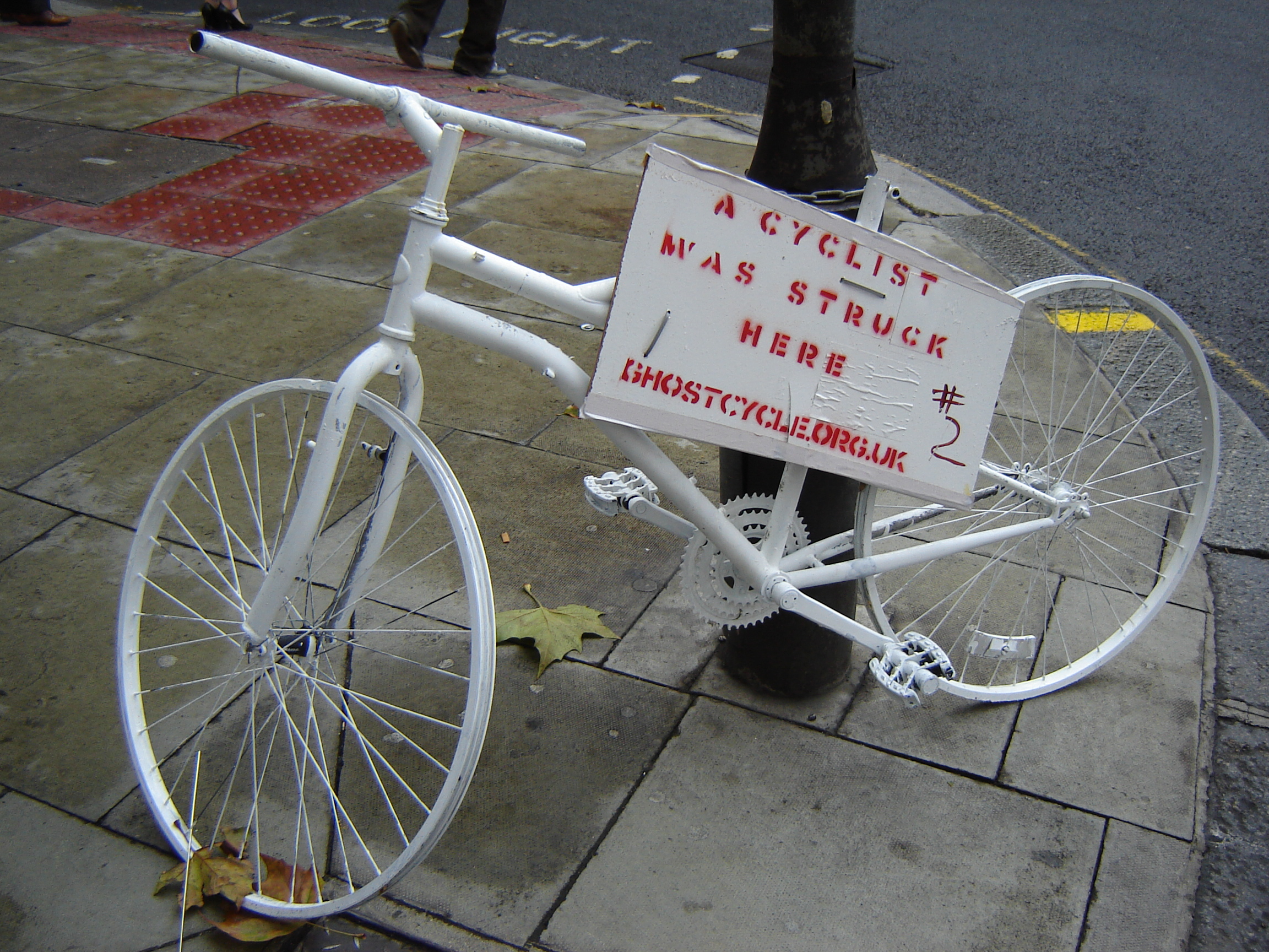 Ghostcycle: this makeshift monument appeared briefly in Gray's Inn Road, London.